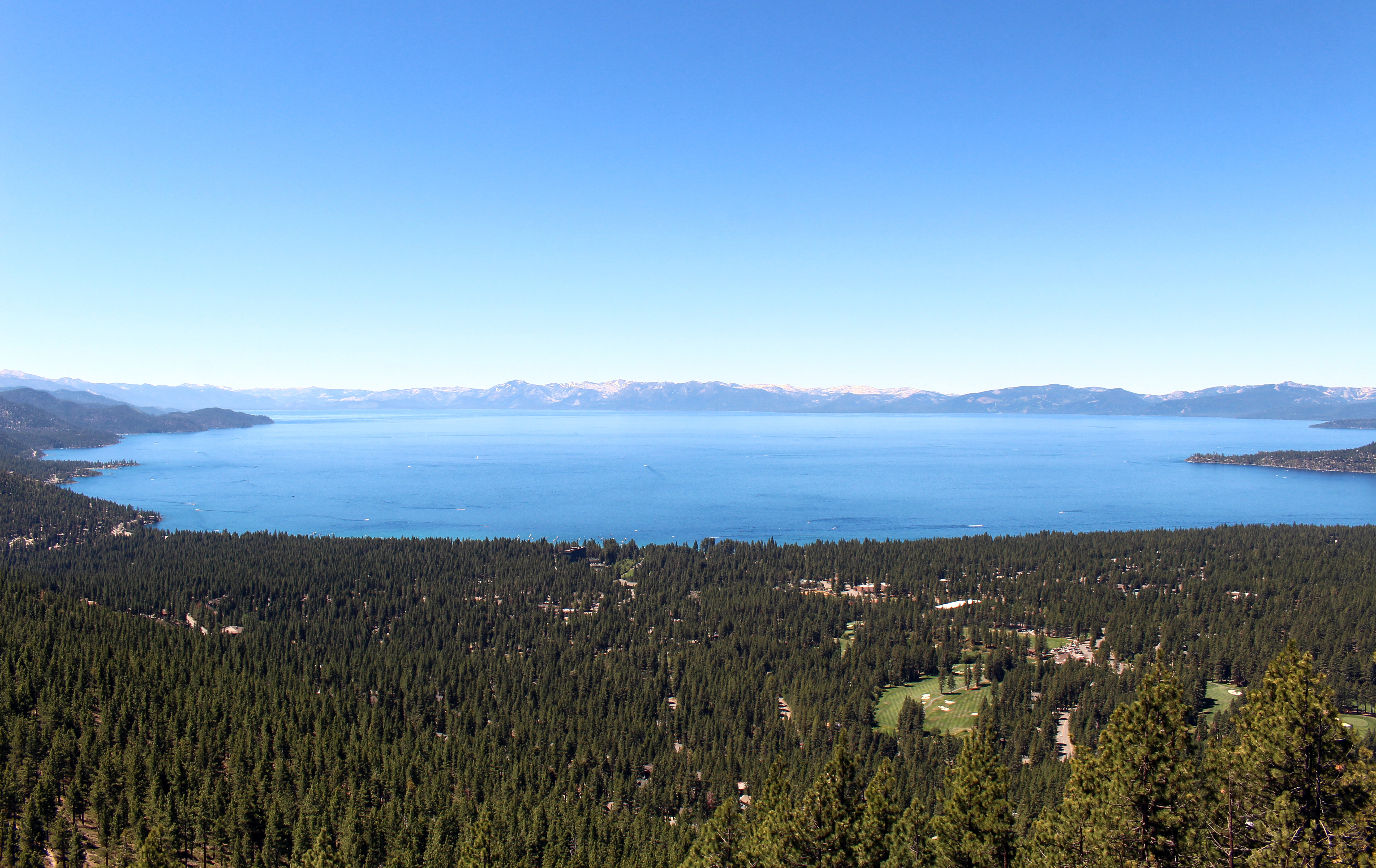 The view of Lake Tahoe from the scenic overlook on Nevada State Route 431. This is on the first major hairpin curve above Incline Village. Photographed by user Coolcaesar on July 5, 2020.